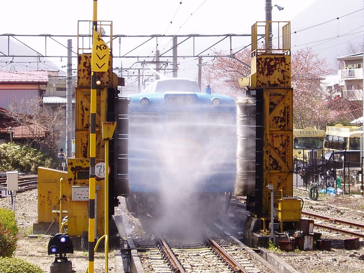 Cleaning equipment for railroad car